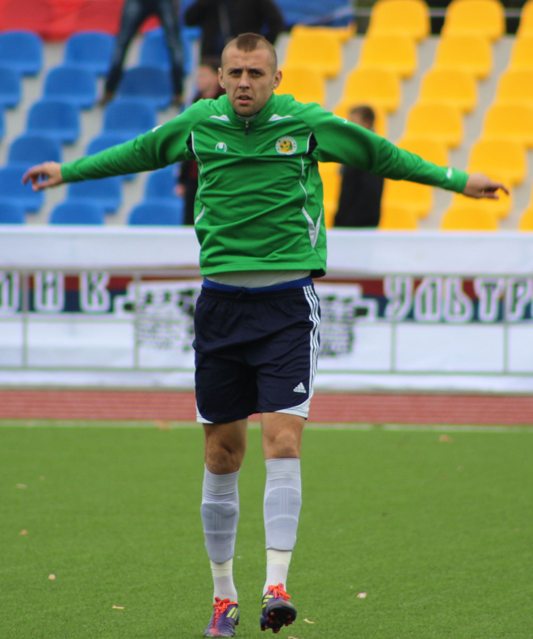 Mykhaylo Denysov